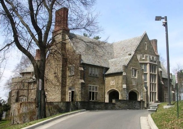 alpha delta phi mansion at cornell